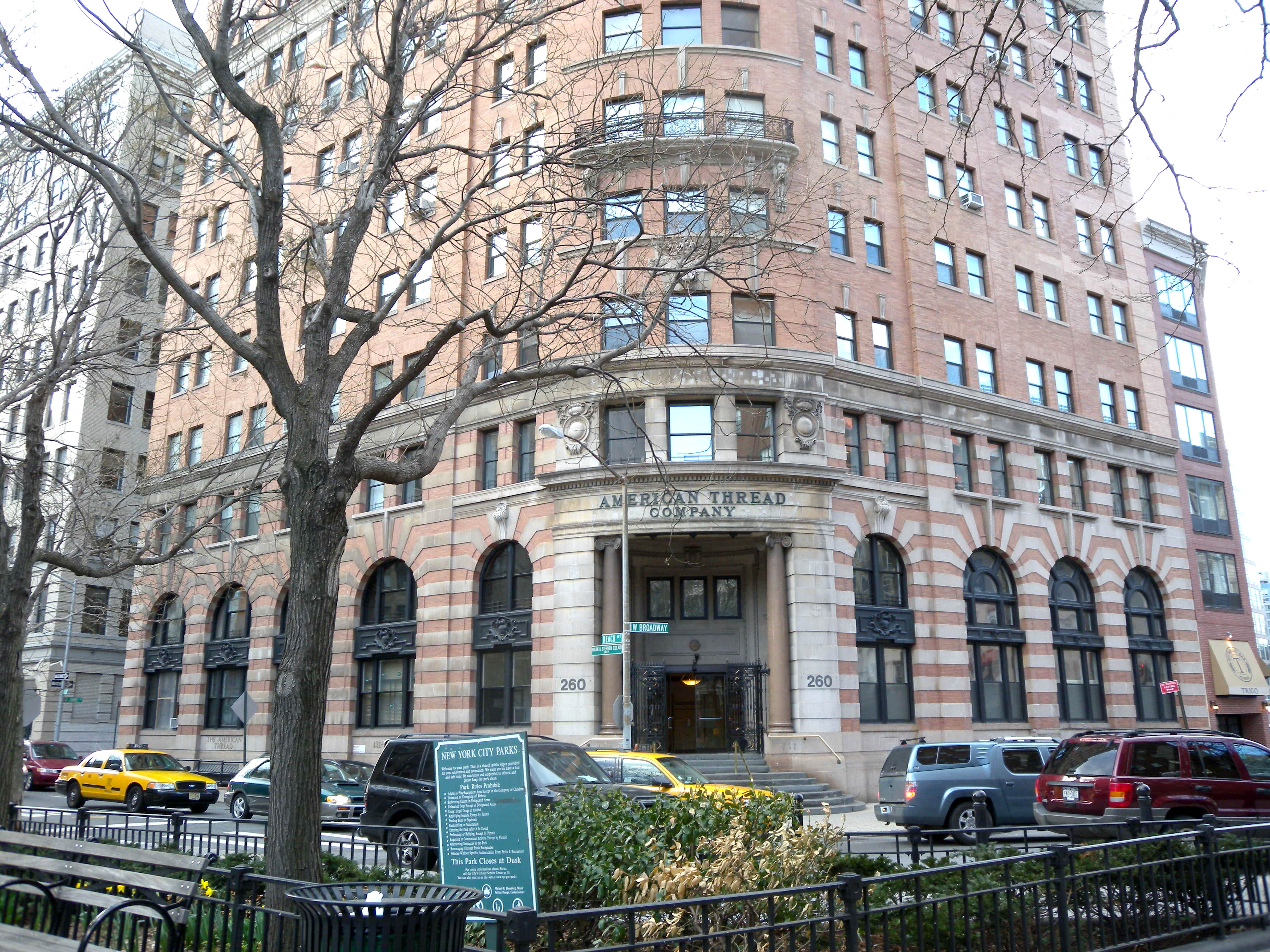 Looking northwest across West Broadway at American Thread Building at 260 West Broadway and Beach Street on a cloudy afternoon. See also File:American Thread Company jeh.JPG. ZIP 10013.